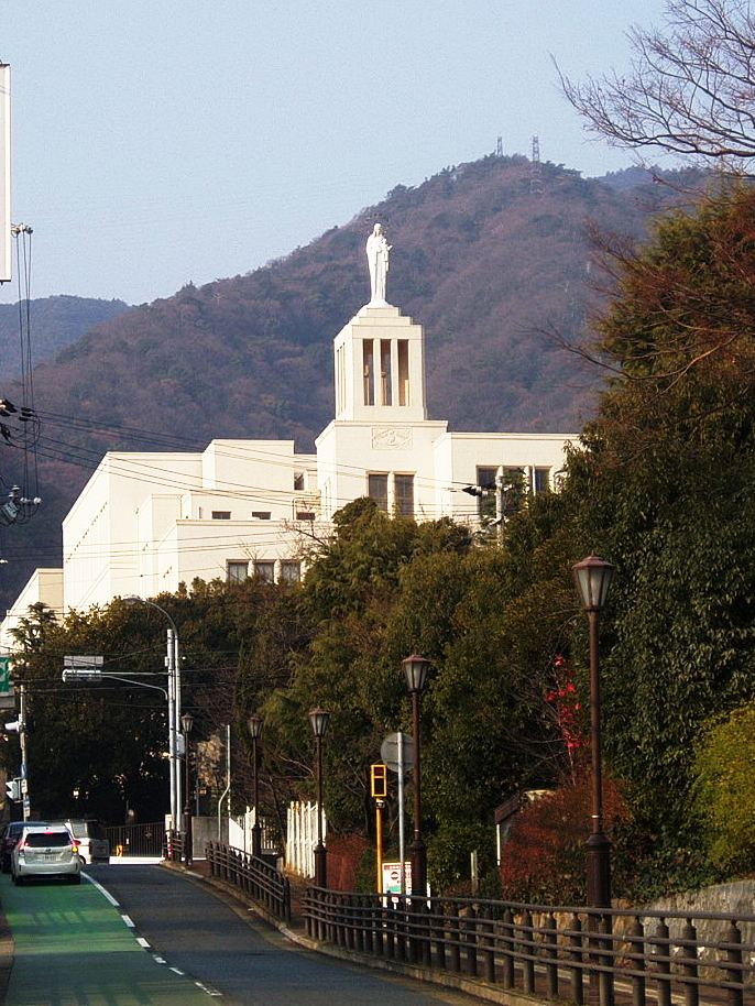 A far view of Kobe Kaisei College located in Nada-ku, Kobe, Hyogo, Japan.